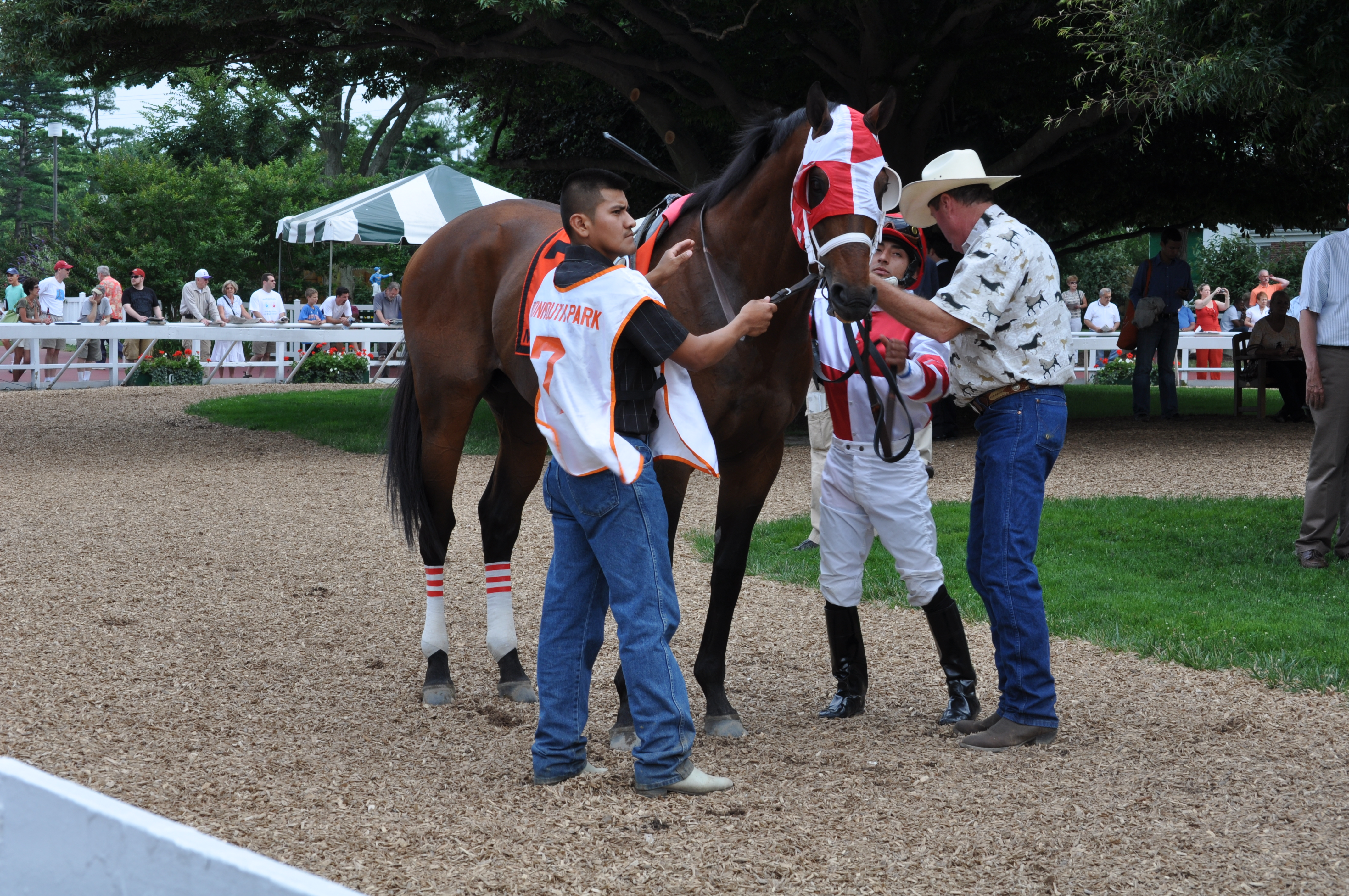 2009 Kentucky Derby hopeful, Friesan Fire, in July 2011 at Salvator Mile Stakes.